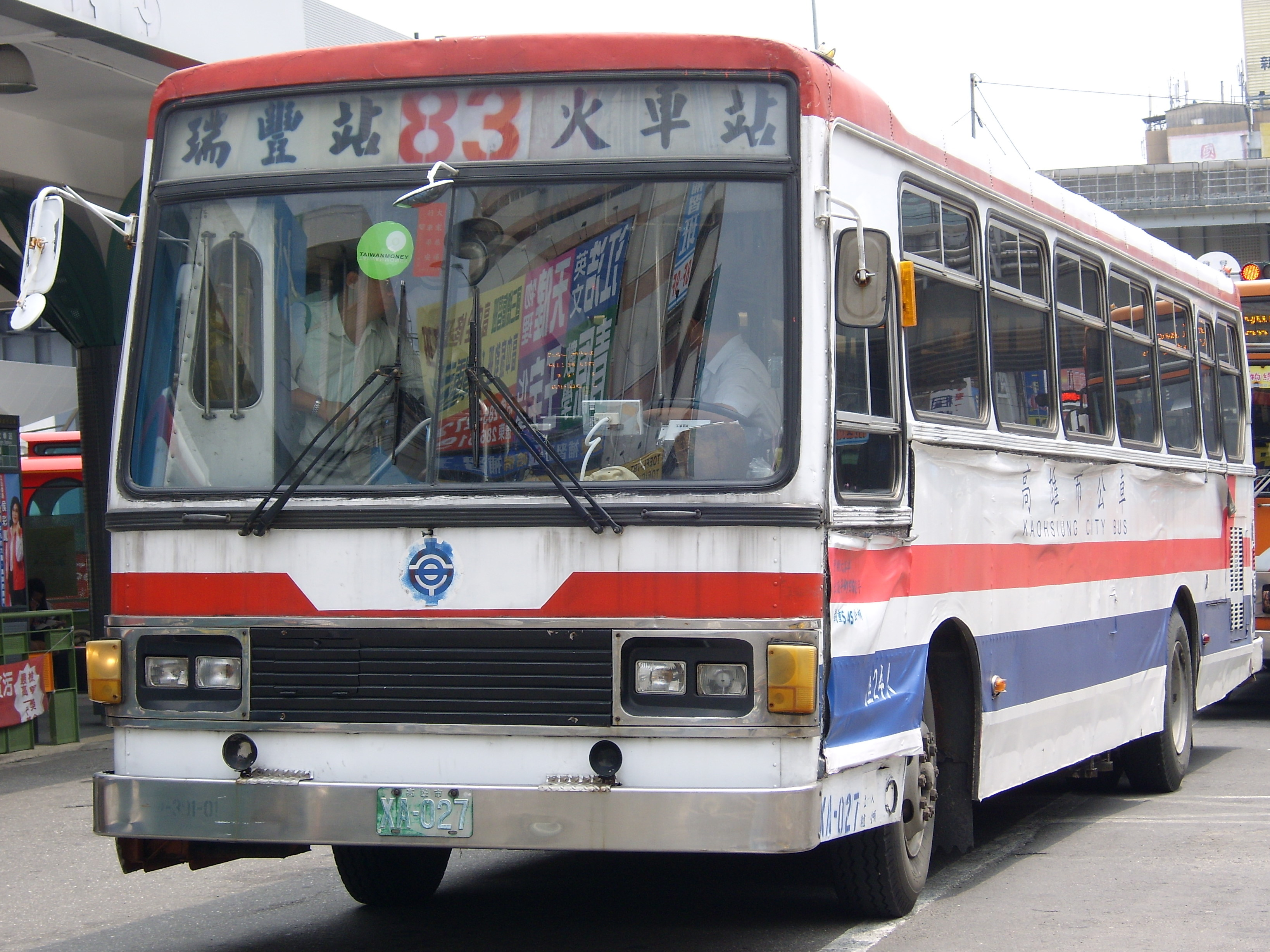 A old LEG6SA bus is owned by Kaohsiung City Bus Department.